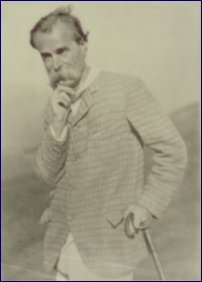 George Davison, selfportrait